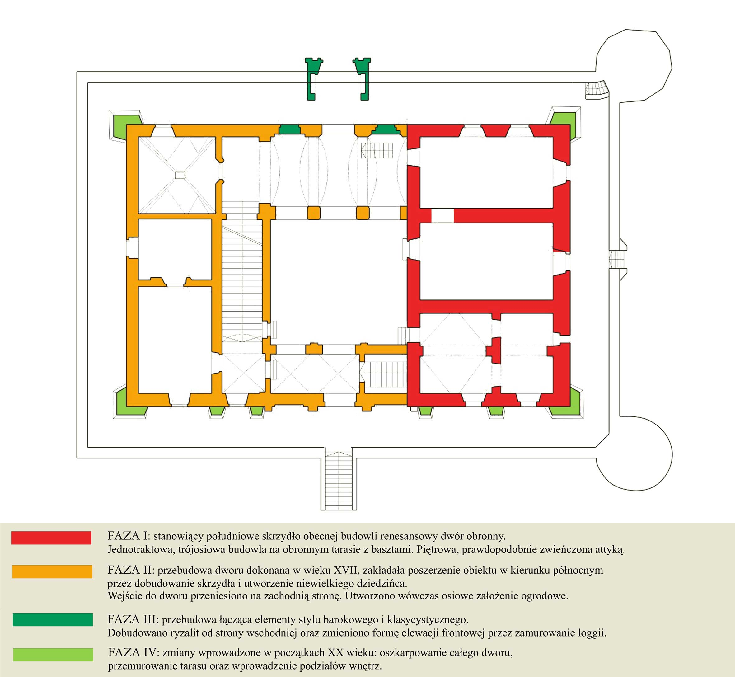 Manor house in Czaniec, Poland - groud floor plan with historical building stages